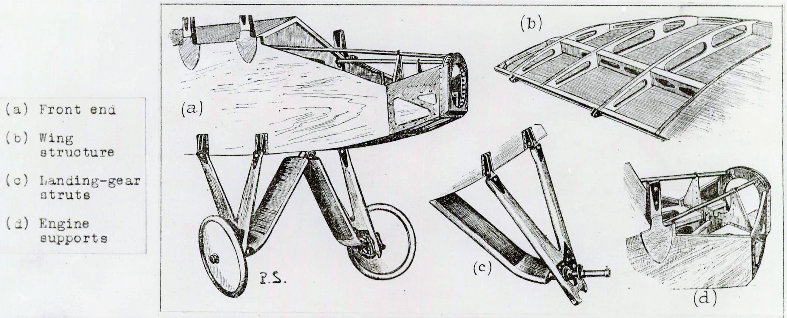 Albert TE detail drawing from NACA Aircraft Circular No.23